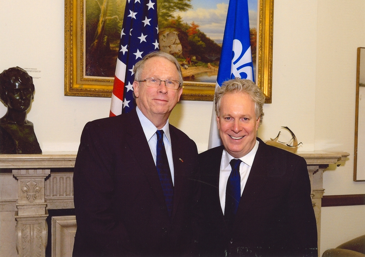 Quebec CityA few weeks after taking up his duties, Consul General Peter O’Donohue payed a courtesy call on Quebec Premier Jean Charest. Mr. O' Donohue highlighted the solid bonds that have long existed between Quebec and the United States and his desire to reinforce and expand on those ties.